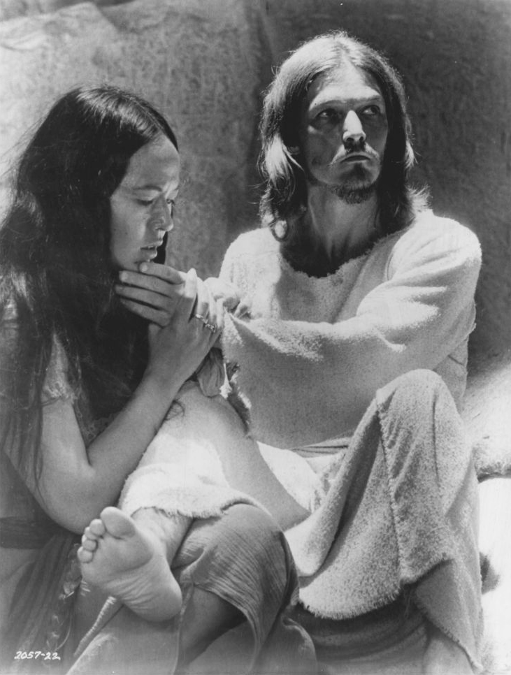 Publicity photo of American entertainers Yvonne Elliman and Ted Neeley promoting their roles in the 1973 feature film Jesus Christ Superstar.